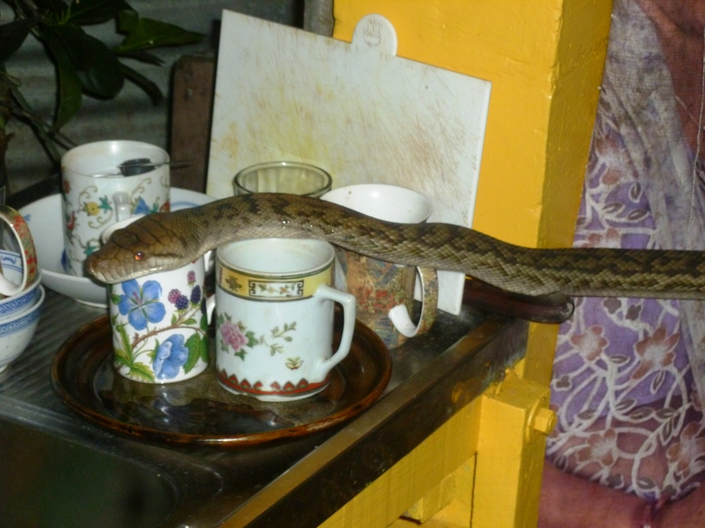 I took this photo in our kitchen at home near Cooktown, Queensland, Australia. 2014